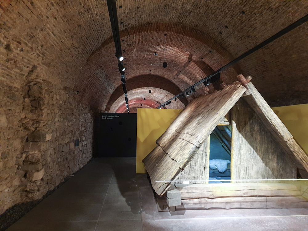 Celtic_hut_in_the_Historical_Museum,_Bratislavalabel QS:Len,"Celtic_hut_in_the_Historical_Museum,_Bratislava" label QS:Lhu,"Kelta ház rekonstrukciója a pozsonyi Történelmi Múzeumban"